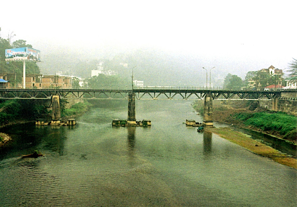 The railway bridge across the Nanxi River, connecting Hekou (China; on the left) - and LaoCai (Vietnam; on the right). The bridge carries the narrow-gauge Yunnan-Vietnam railway between the two countries. The picture is probably taken from the pedestrian/vehicular bridge a short distance downstream.